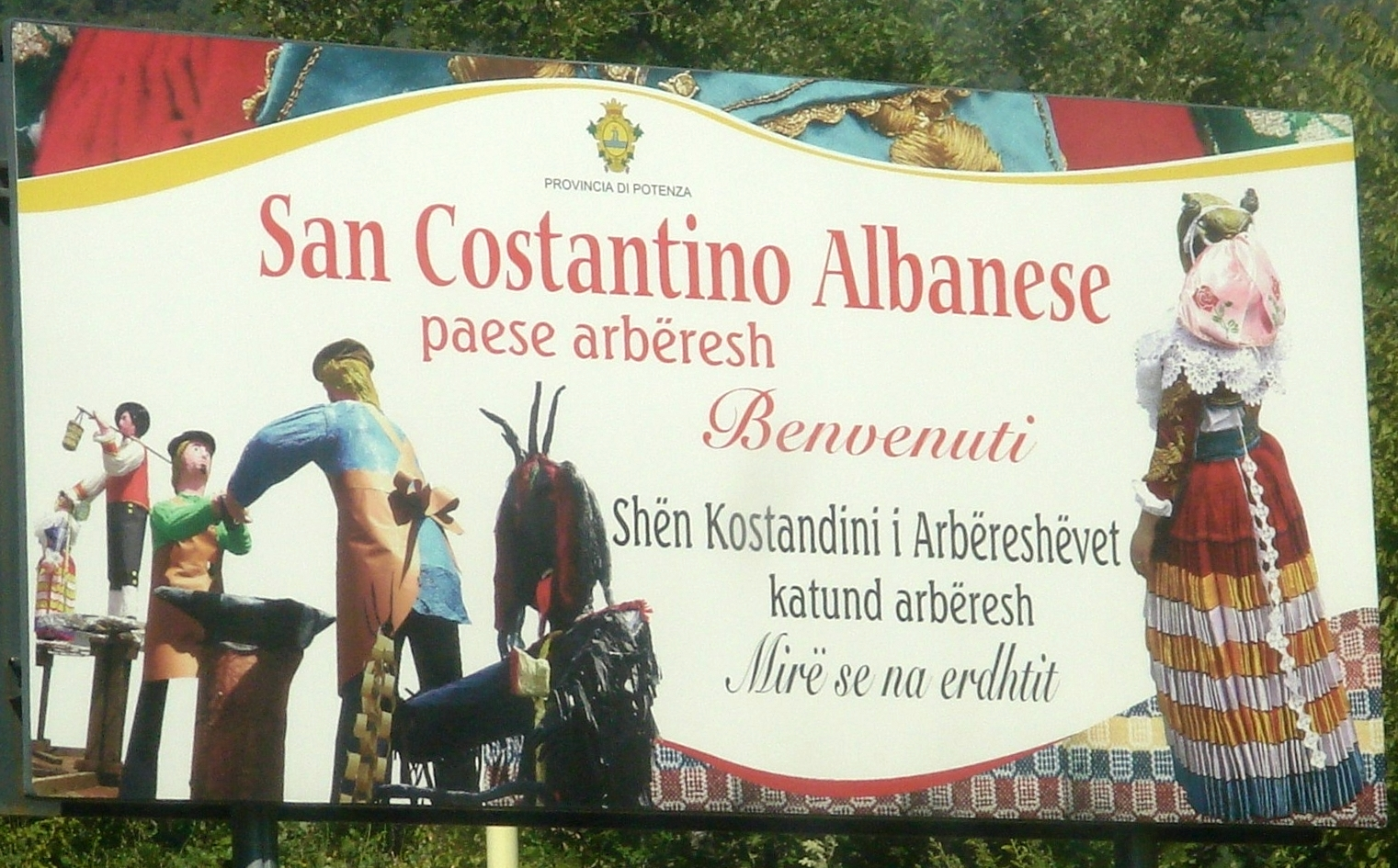 Bilingual Welcome road sign, Italian and Arbëreshë